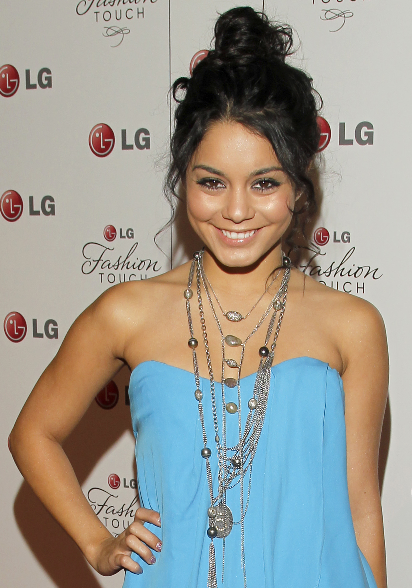 Actress and Singer Vanessa Hudgens In May 28, 2010.